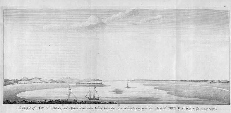 [Illustrations de A Voyage round the world in the years MDCCXL, I, II, II, IV. By George Anson. Compiled... by Richard Walter] / J. Mason, grav. ; Richard Walter, aut. du texte Éditeur : J. and P. Knapton (london) 1748